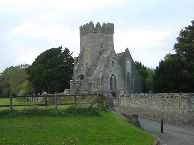 St. Doulagh's Church, Malahide